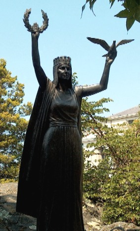 Mackenzie Papineau monument in Victoria BC. Photo taken by Dr Haggis on 29JUL04